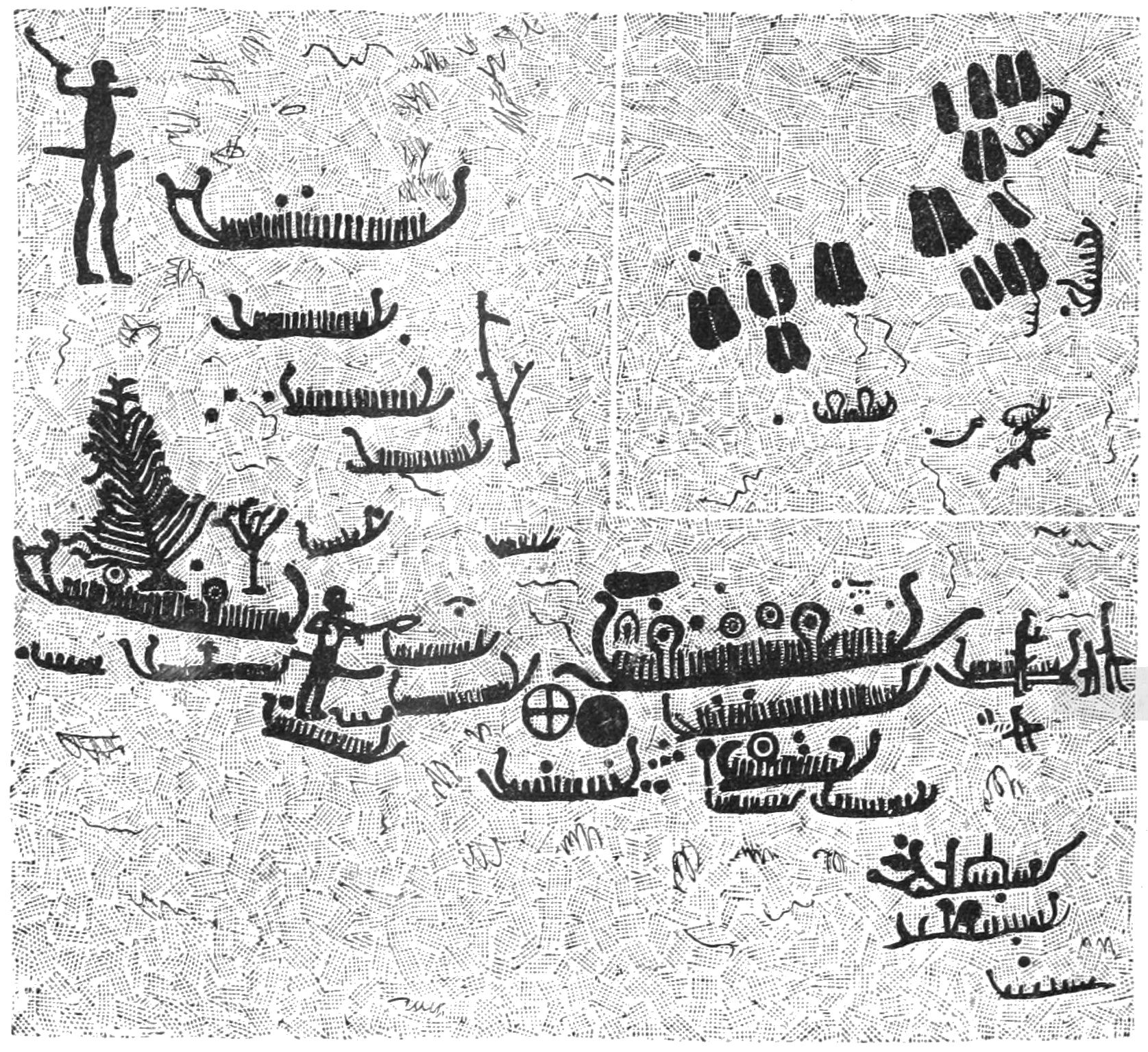 Rock carving in Lökeberg, Foss parish, Tunge hundred, Munkedal municipality, Bohuslän, Västra Götaland county, Sweden.